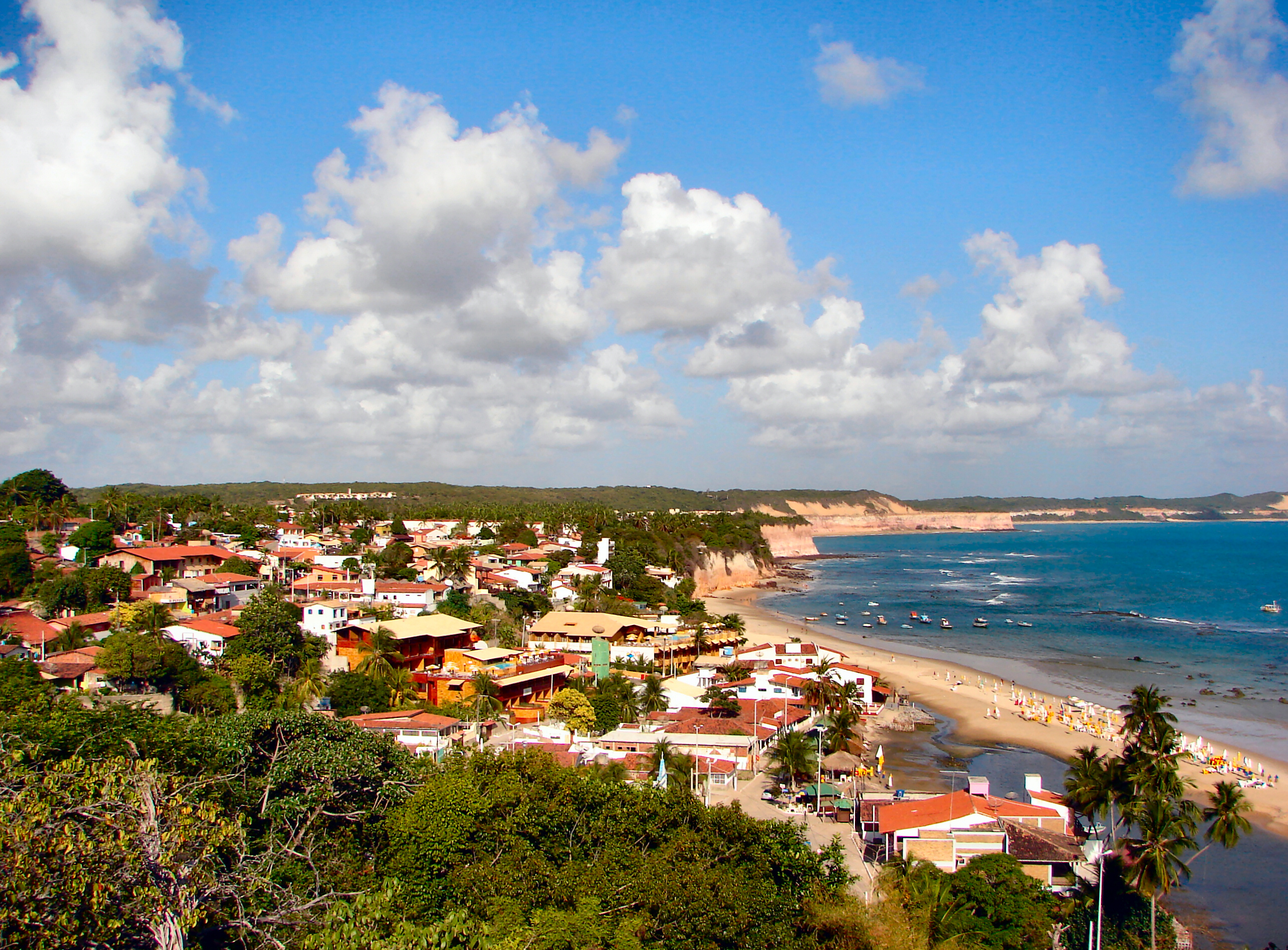 A view of the centre of Pipa Beach/Praia da Pipa, as seen from the hill above Praia do Amor. At low tide it is possible to walk north along the beaches as far as you can see on this photo.